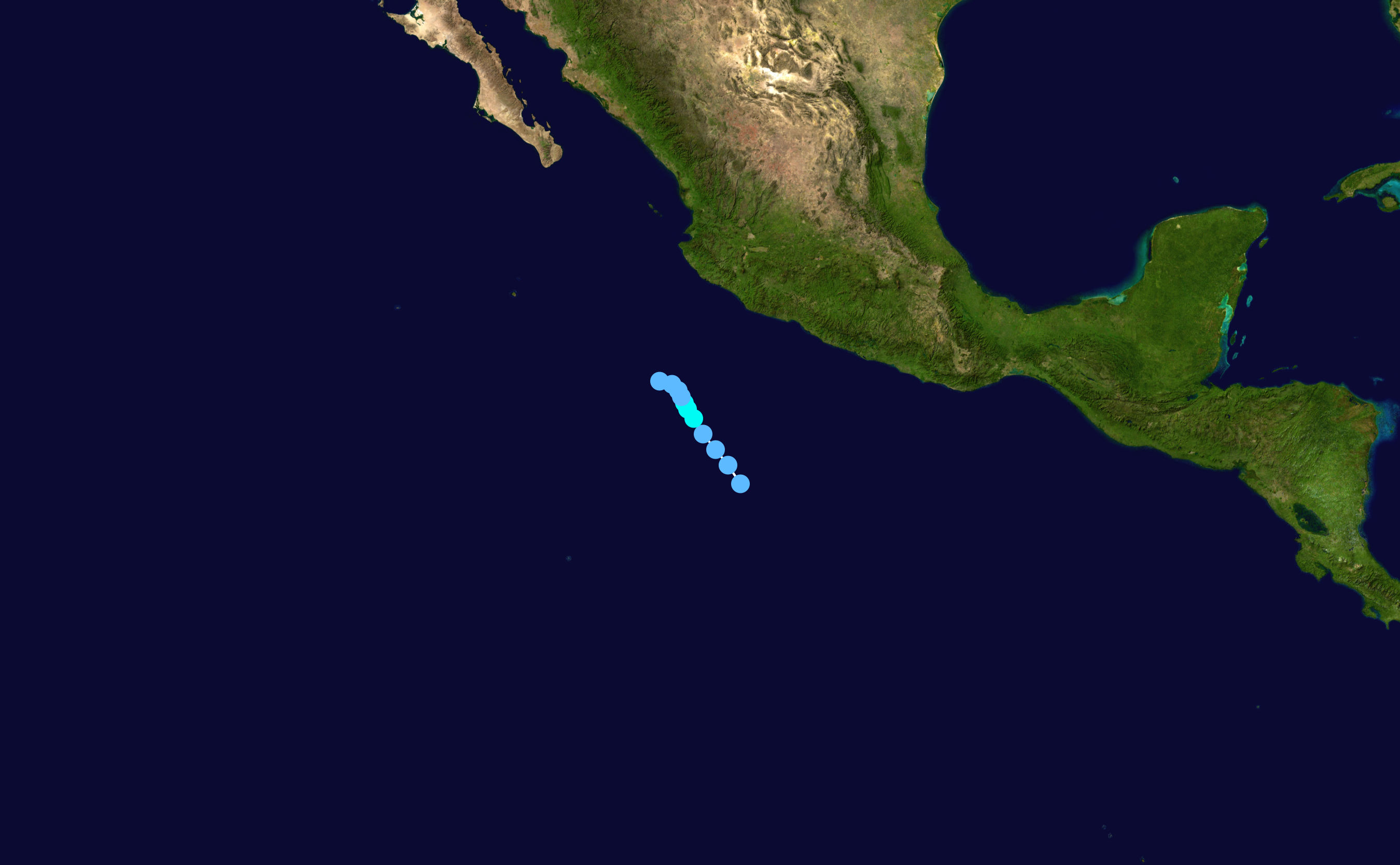 Track map of Tropical Storm Rosa of the 2006 Pacific hurricane season. The points show the location of the storm at 6-hour intervals. The colour represents the storm's maximum sustained wind speeds as classified in the Saffir–Simpson scale (see below), and the shape of the data points represent the nature of the storm, according to the legend below. Saffir–Simpson scale Tropical depression≤38 mph≤62 km/h Category 3111–129 mph178–208 km/h Tropical storm39–73 mph63–118 km/h Category 4130–156 mph209–251 km/h Category 174–95 mph119–153 km/h Category 5≥157 mph≥252 km/h Category 296–110 mph154–177 km/h Unknown Storm type Tropical cyclone Subtropical cyclone Extratropical cyclone / Remnant low / Tropical disturbance / Monsoon depression